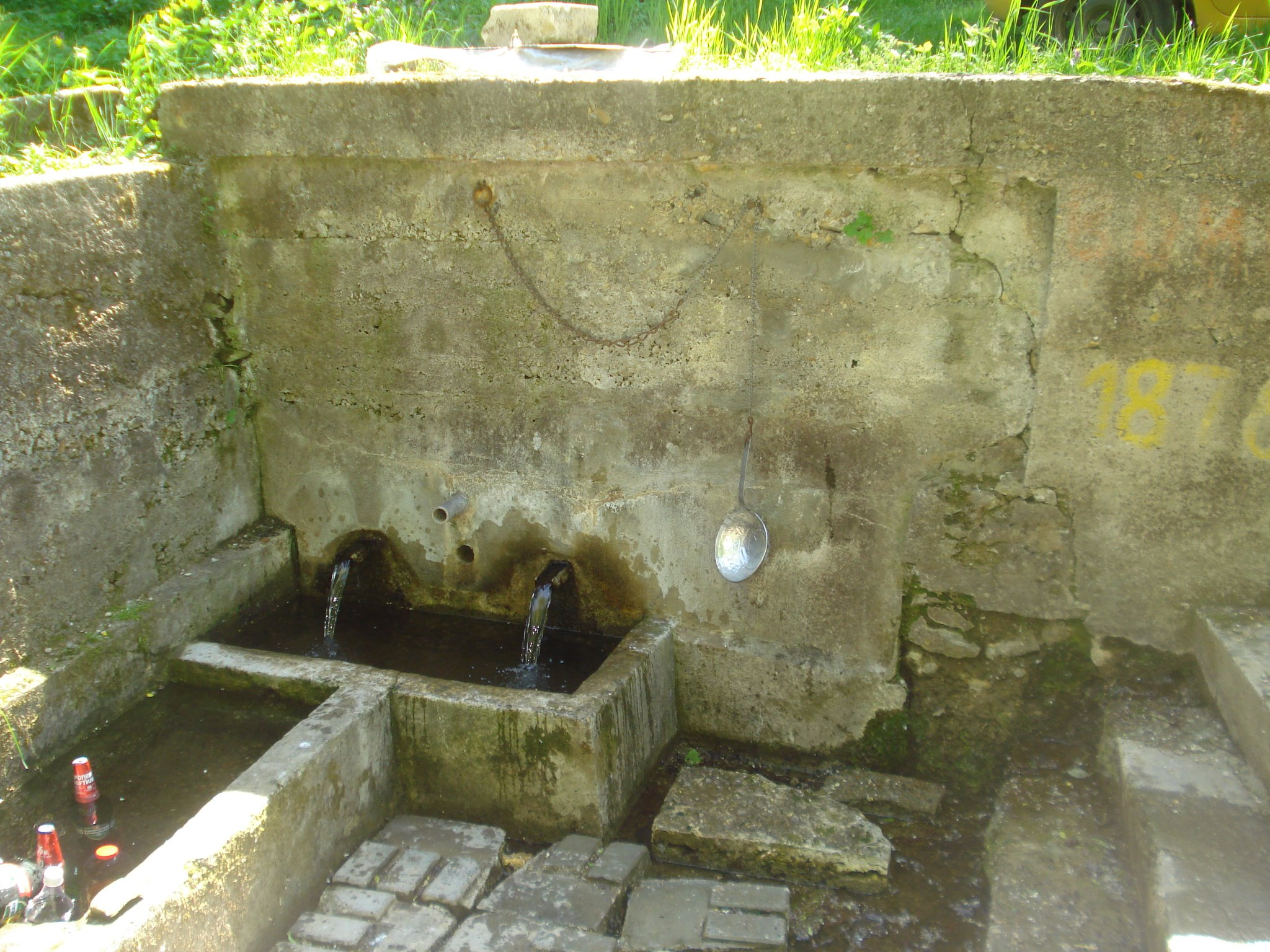 Water spring near Kaynaka